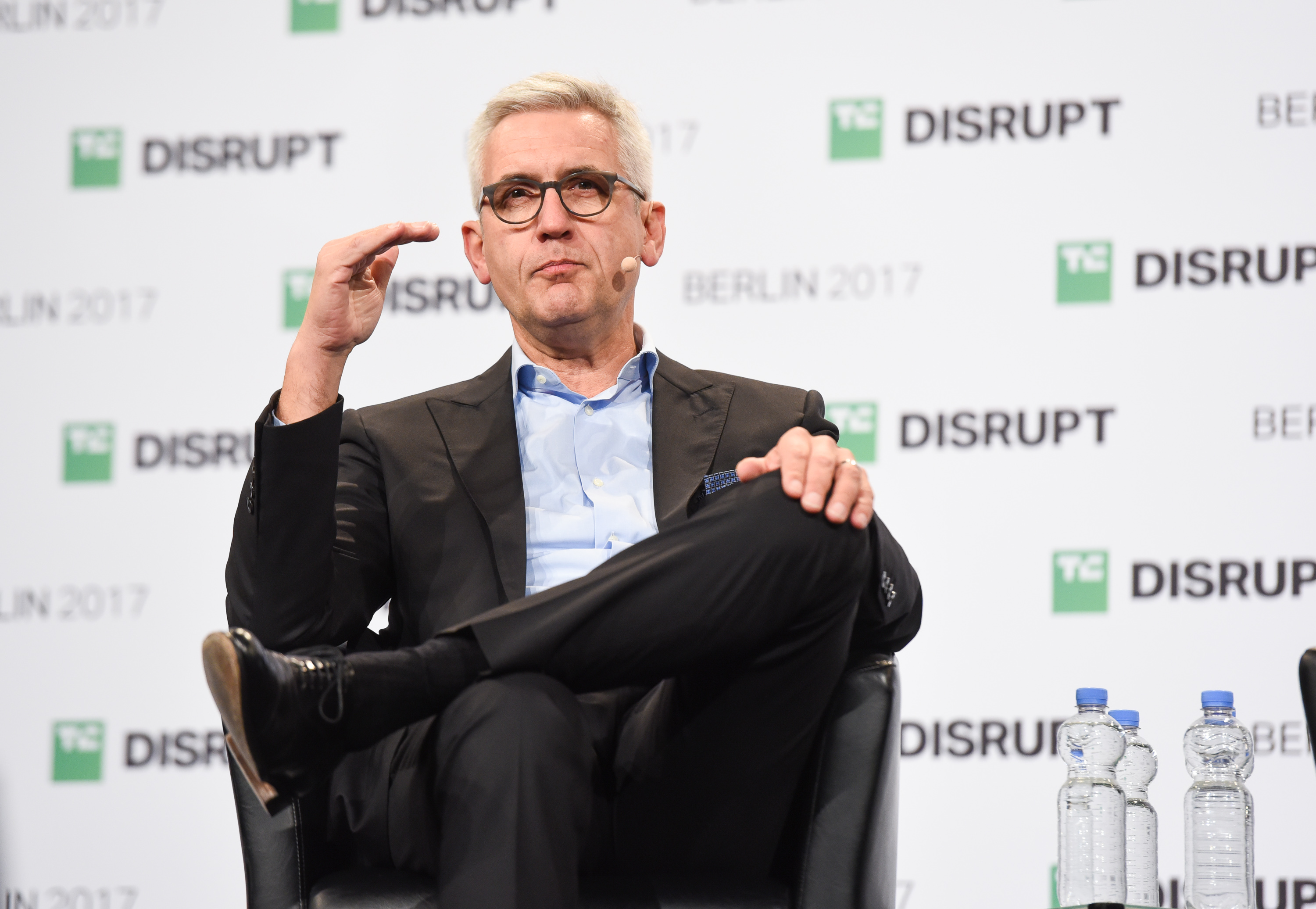 BERLIN, GERMANY - DECEMBER 05: ABB CEO Ulrich Spiesshofer speaks onstage at TechCrunch Disrupt Berlin 2017 at Arena Berlin on December 5, 2017 in (Photo by Noam Galai/Getty Images for TechCrunch )